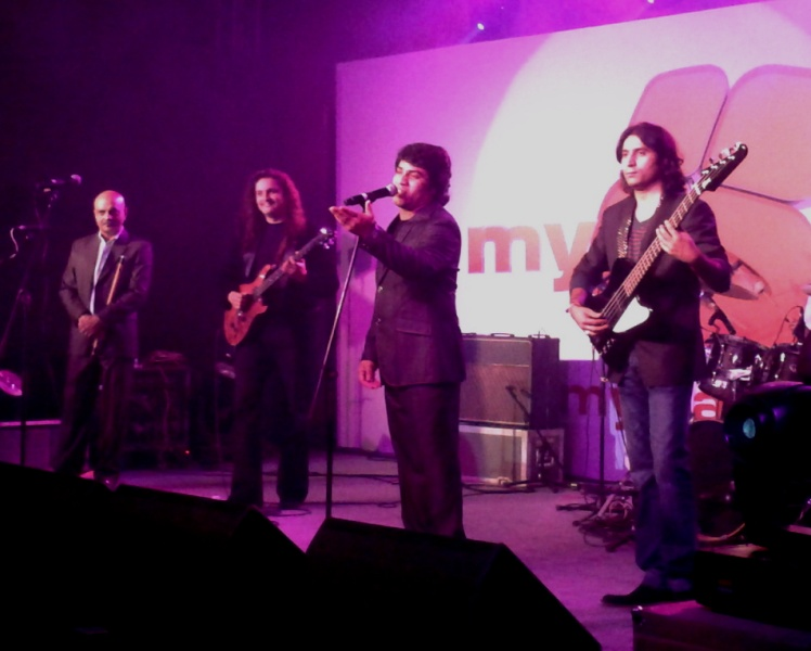 Picture of MHB taken in January 2012 in Mumbai.